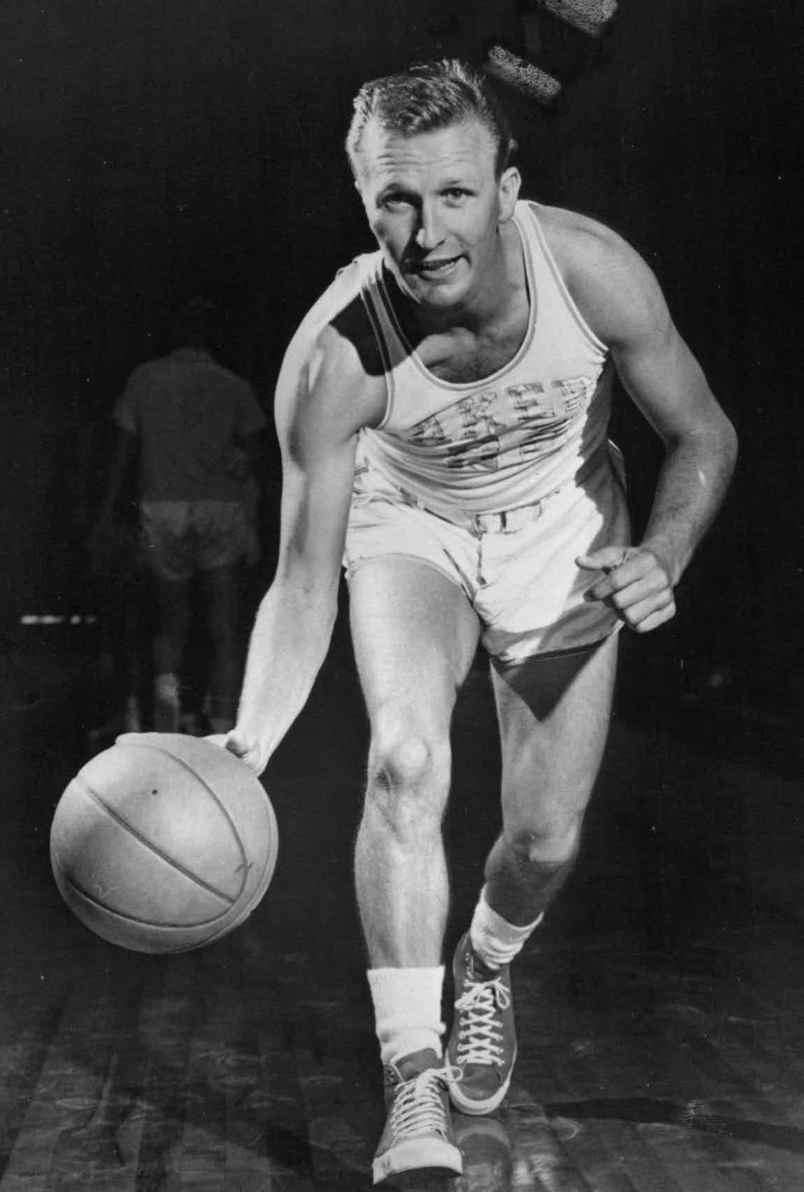 Professional basketball player Slater Martin